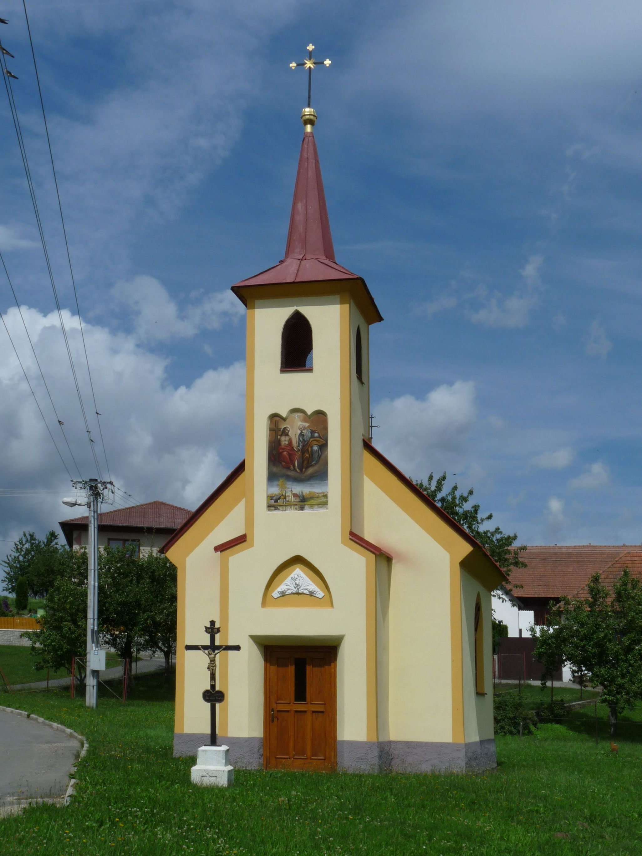 Chapel in the village of Částkovice, Pelhřimov District, Czech Republic.